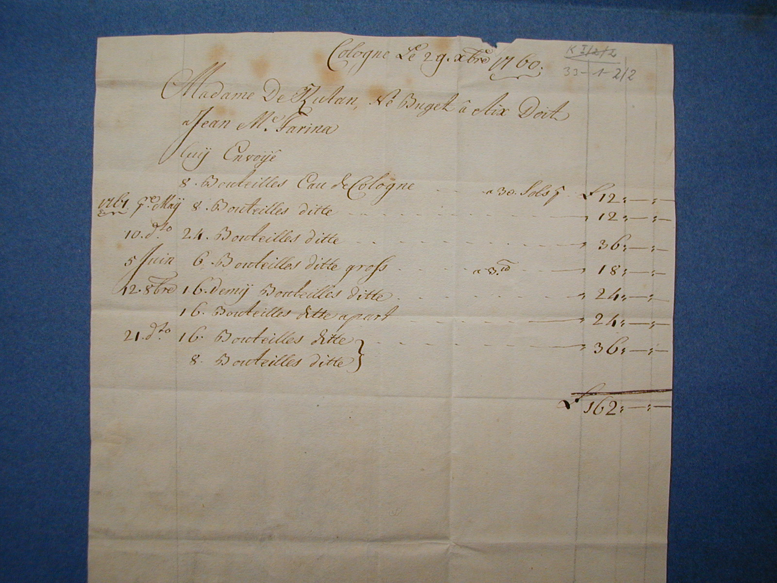 Invoice Johann Maria Farina in Cologne 1760